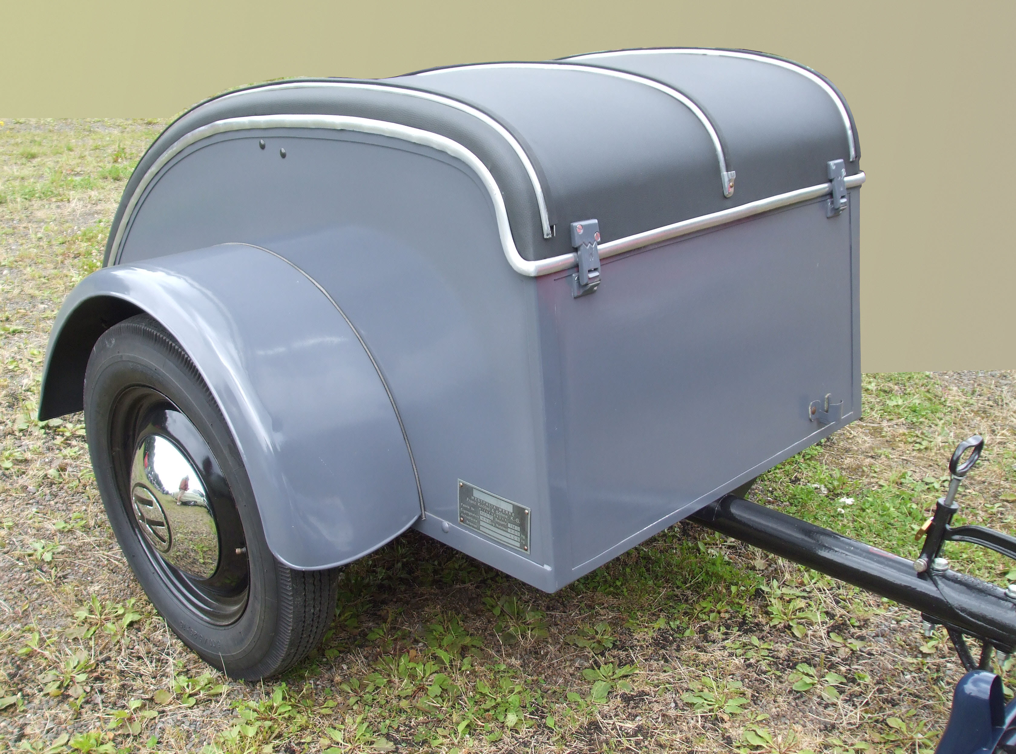 Westfalia trailer Wolfsburg, build in 1949